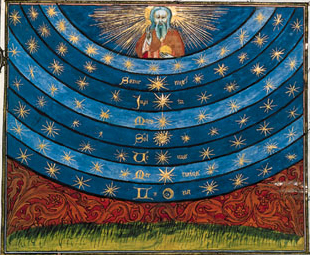 Le livre du Ciel et du Monde Illustration of the Celestial spheres Note that although the order of the spheres is conventional, with the Moon and Mercury closest to the Earth and Saturn and the stars farthest, the spheres are convex upward centered on God rather than convex downward centered on the Earth.